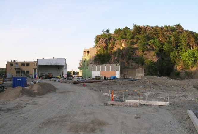 Finnboda varv, the entrace, Nacka, Sweden